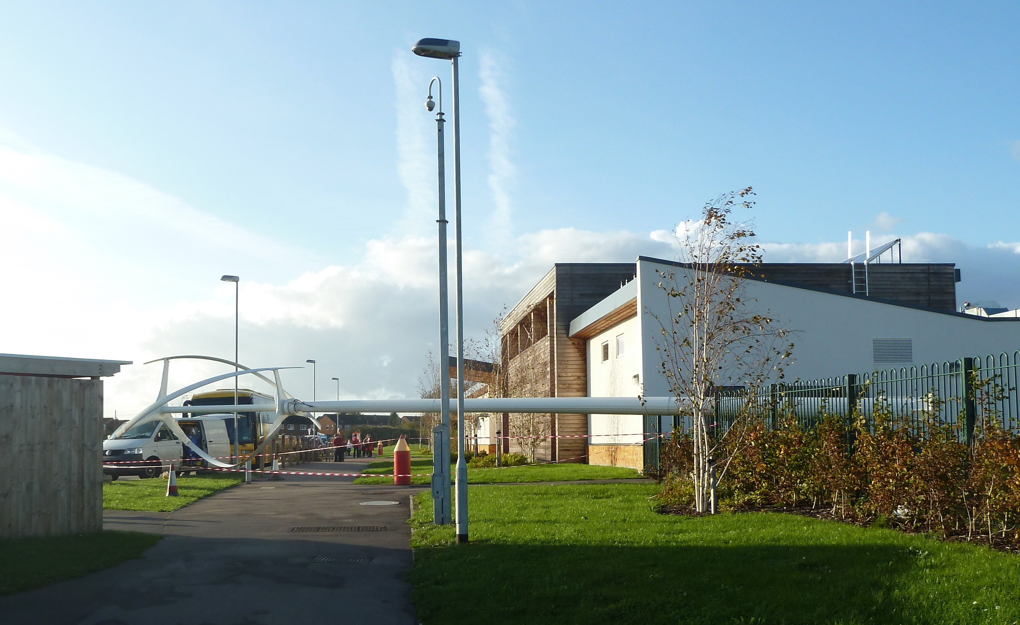 quietrevolution qr5 vertical-axis wind turbine, lowered for maintenance. This is the turbine installed at Rogiet primary school.